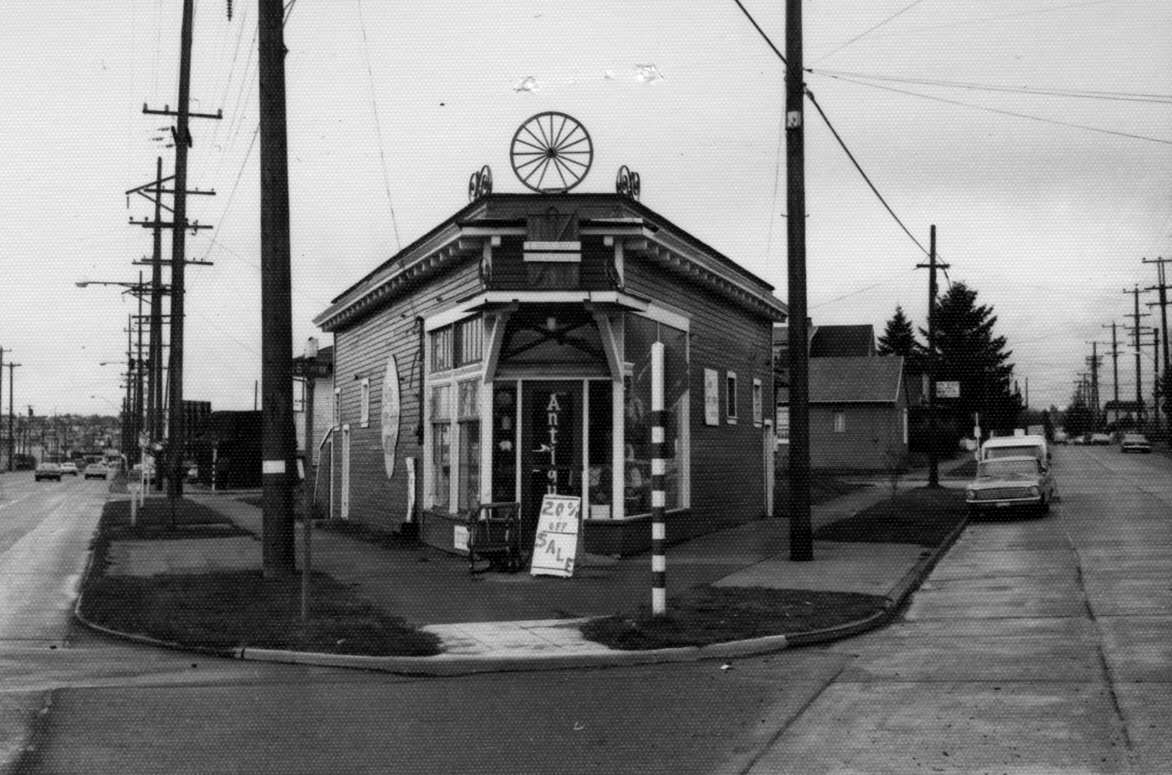 Antique store, 6th Ave NW & NW Leary Way, Seattle, Washington, U.S., circa 1975. A few years later, this space would become Triangle Studios, then from 1986 to 1991, the home of Reciprocal Recording. This is in the neighborhood sometimes called "Frelard", variously considered part of Ballard of Fremont.